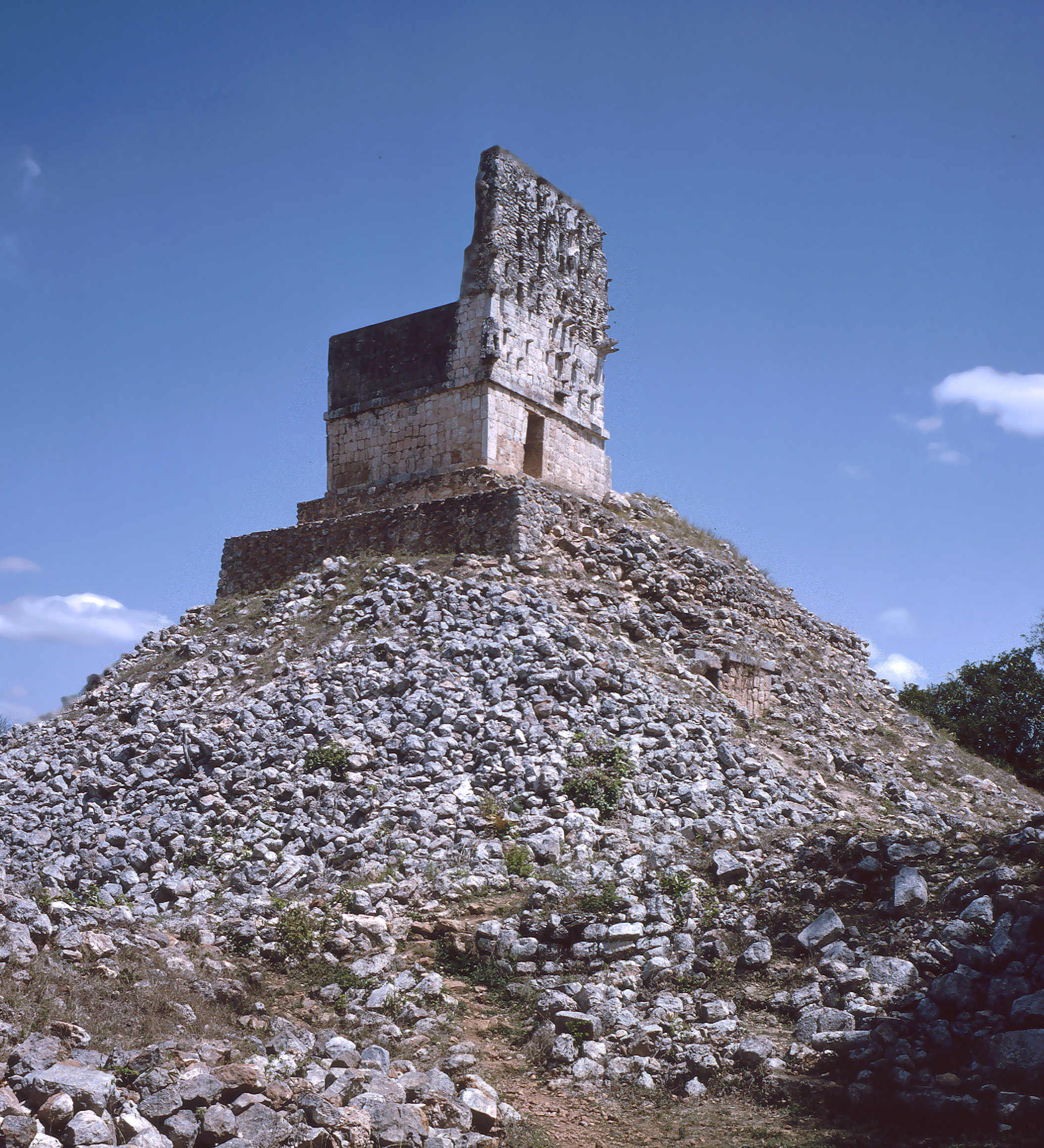 Labná, Yucatan, Mexico: Mirador temple.